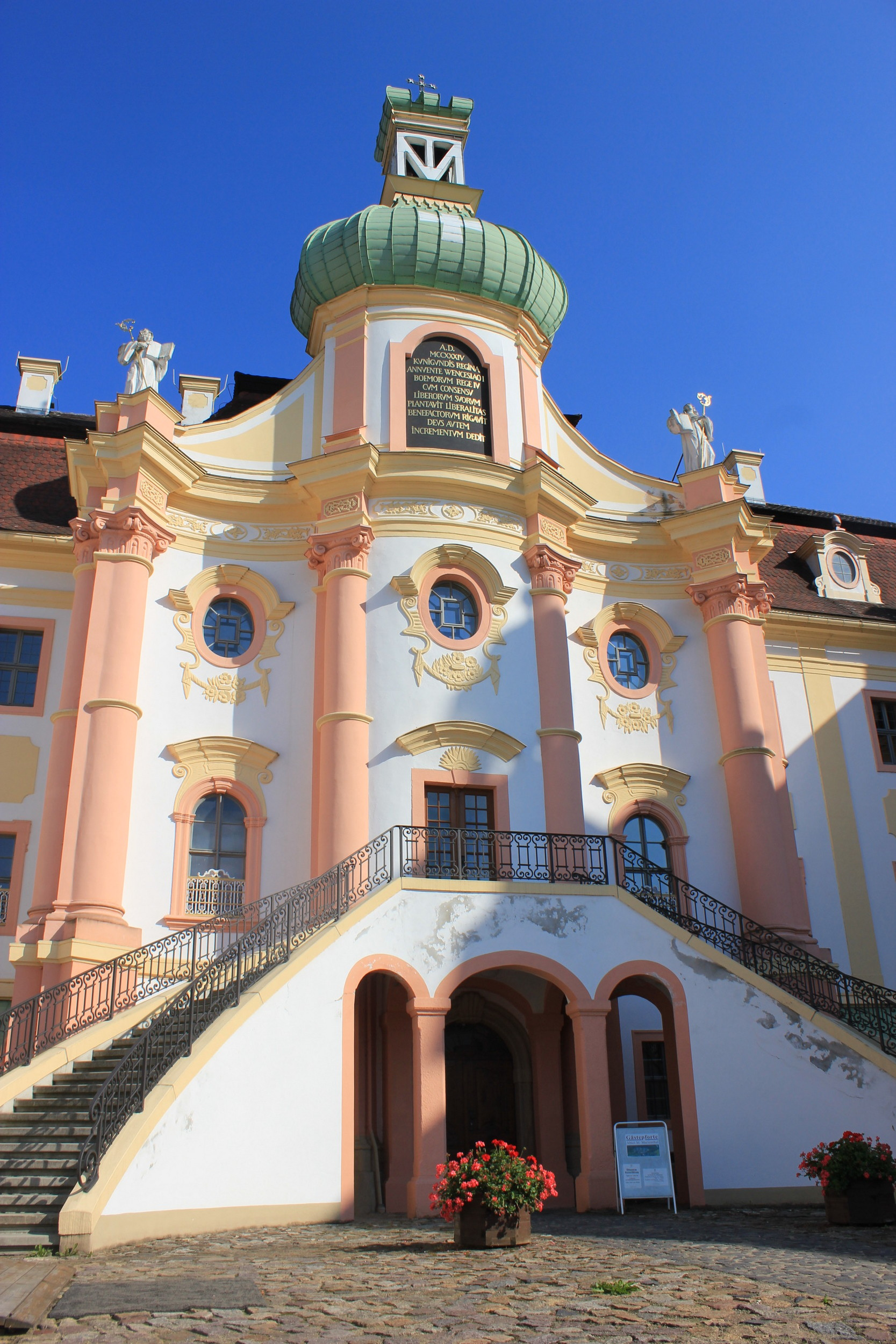 Steps to the main entrance of the abbey at the Yard of Honor